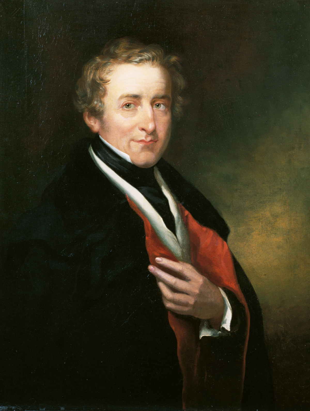 Portrait of Robert Peel (1788–1850)